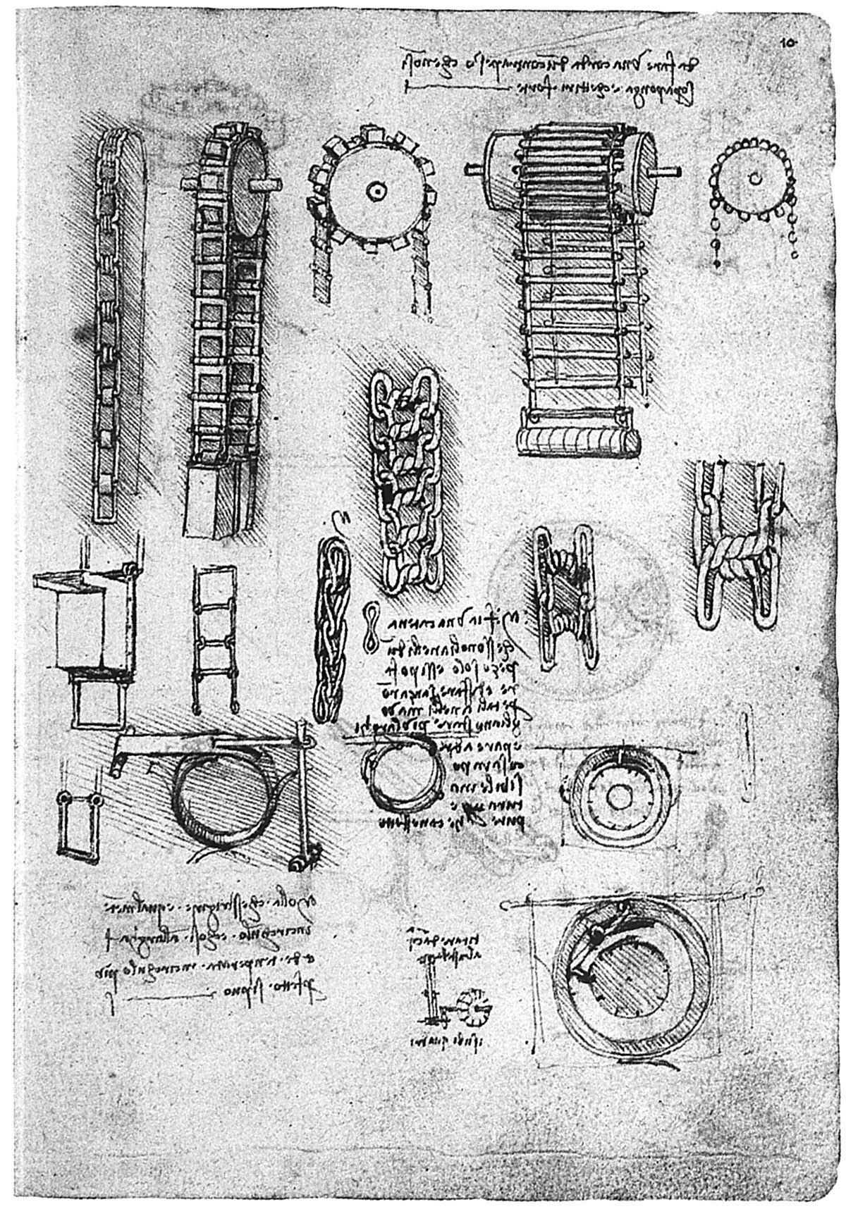 The famous chain page of Codex Madrid I, folio 10r. The find was in the News 1967 as bicycle chains. In 1983 Foley, Blessman and Bryant noted the band break sketches in the lower half.